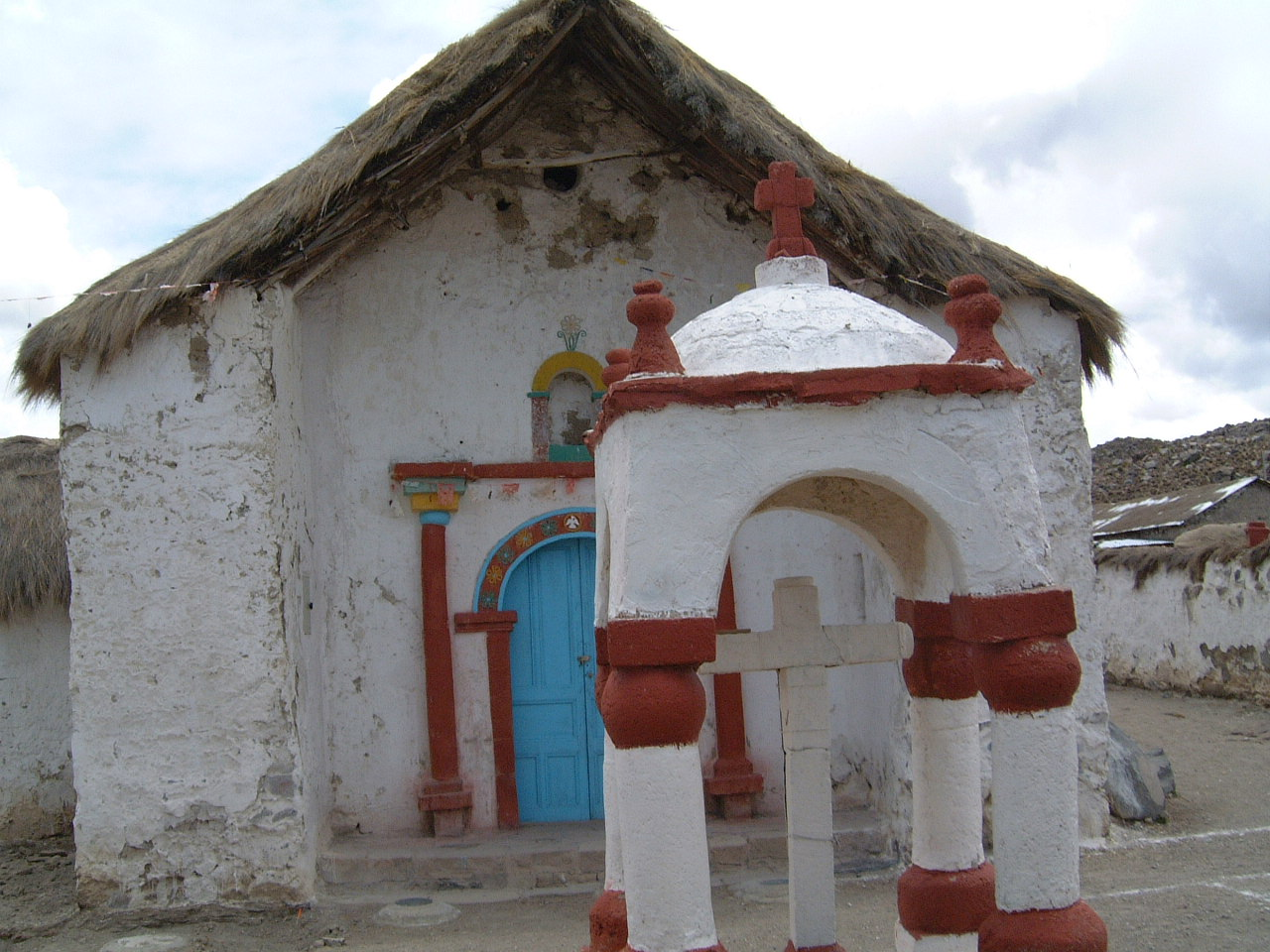 Church in Parinacota Town 12.11.2005 By Herman Luyken